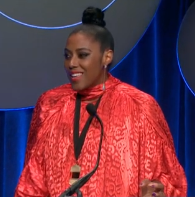 Sarah M. Broom accepts the 2019 National Book Award for Nonfiction